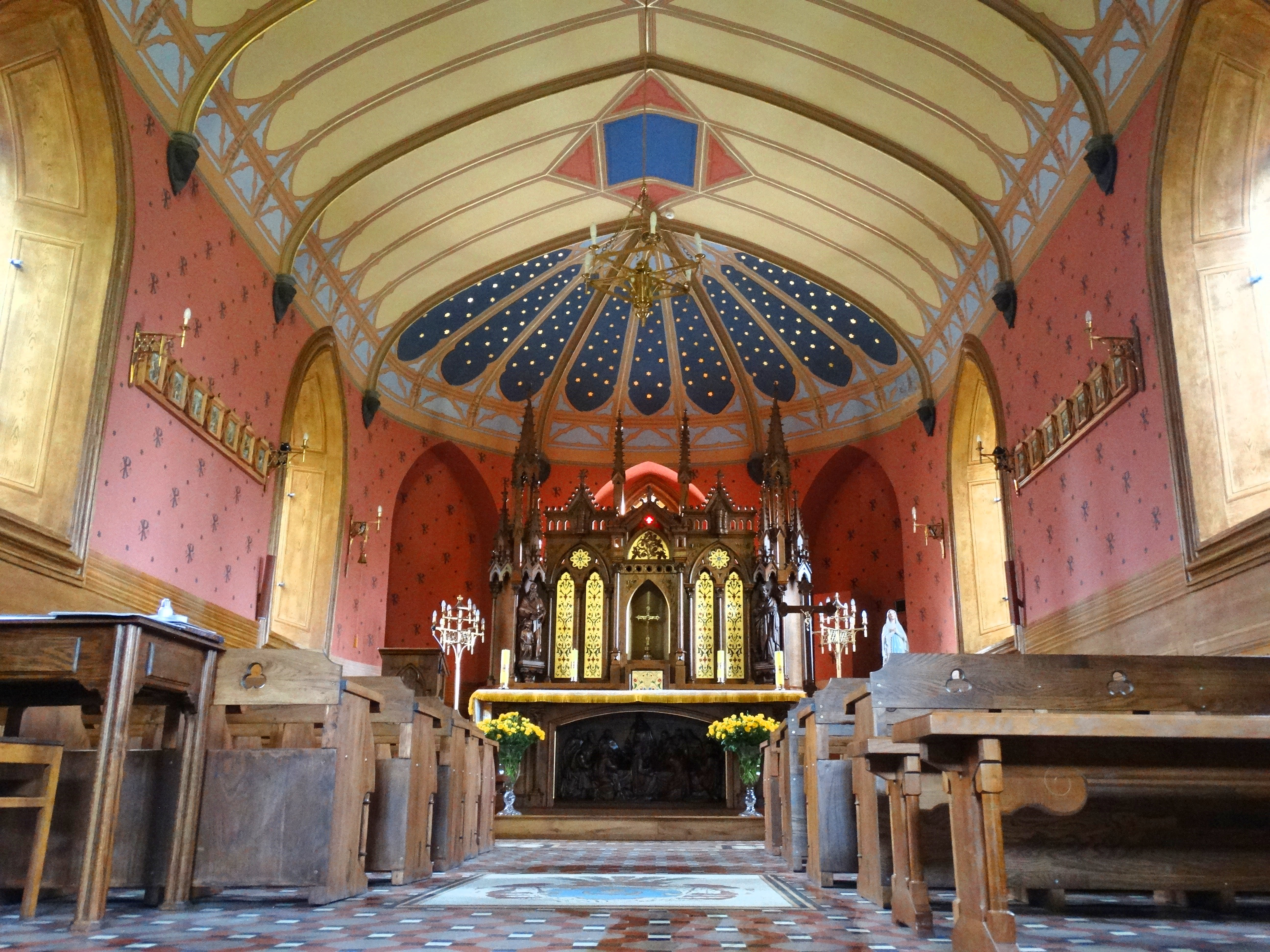 Interior, Tyszkiewicz chapel, Trakų Vokė, Vilnius, Lithuania